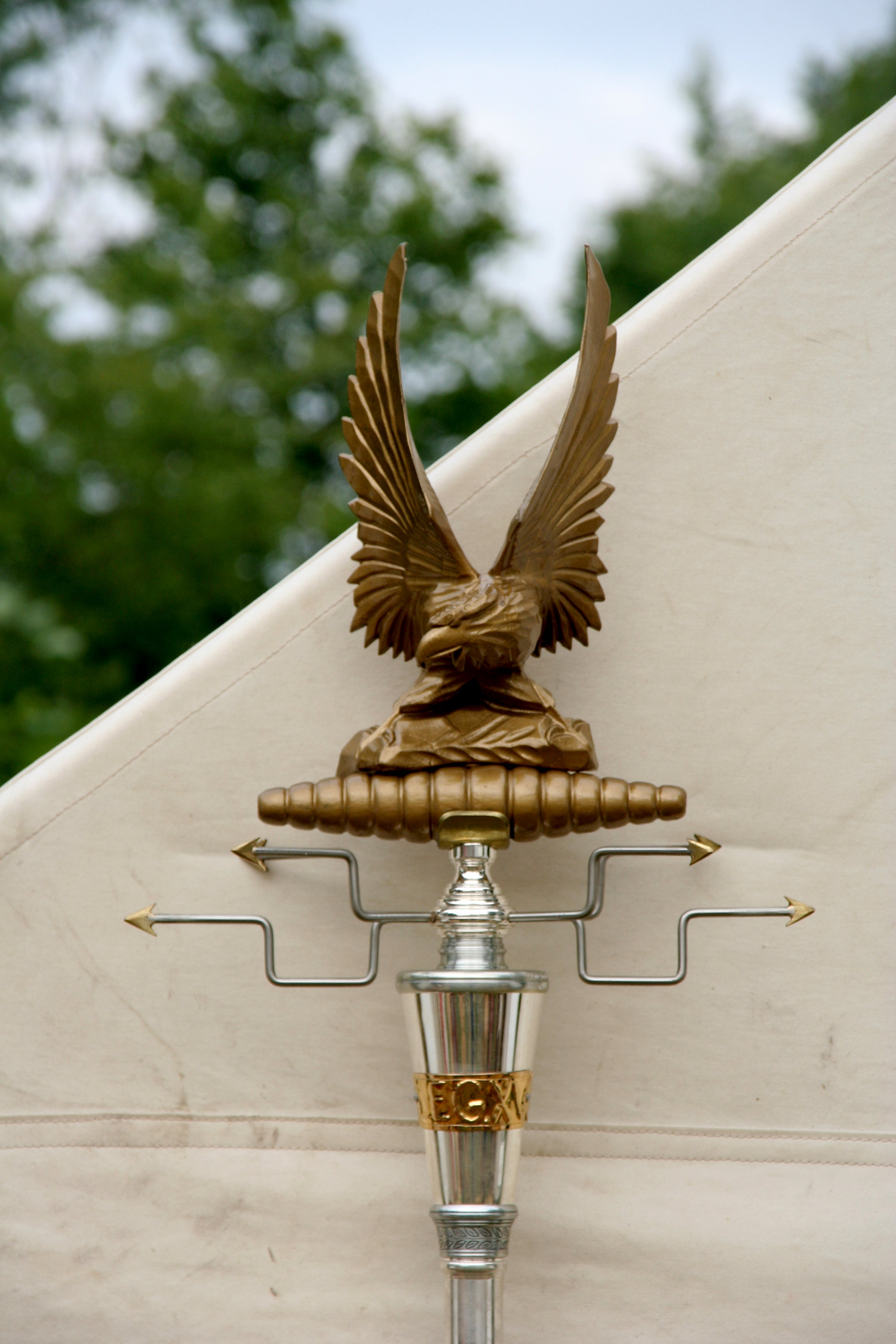 Aquila, the sign of the legion Photographed by myself during a show of Legio XV from Pram, Austria